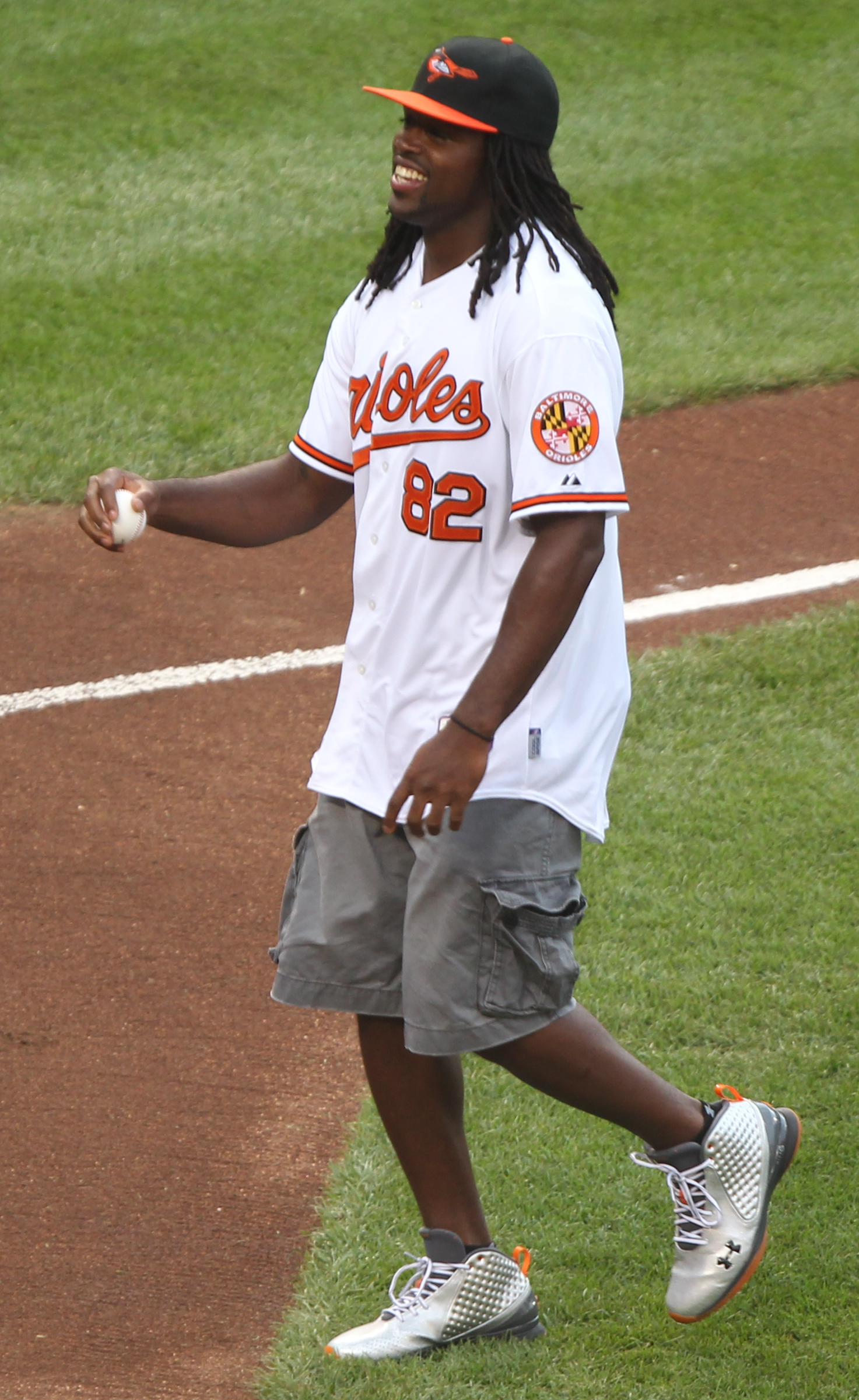 Torrey Smith